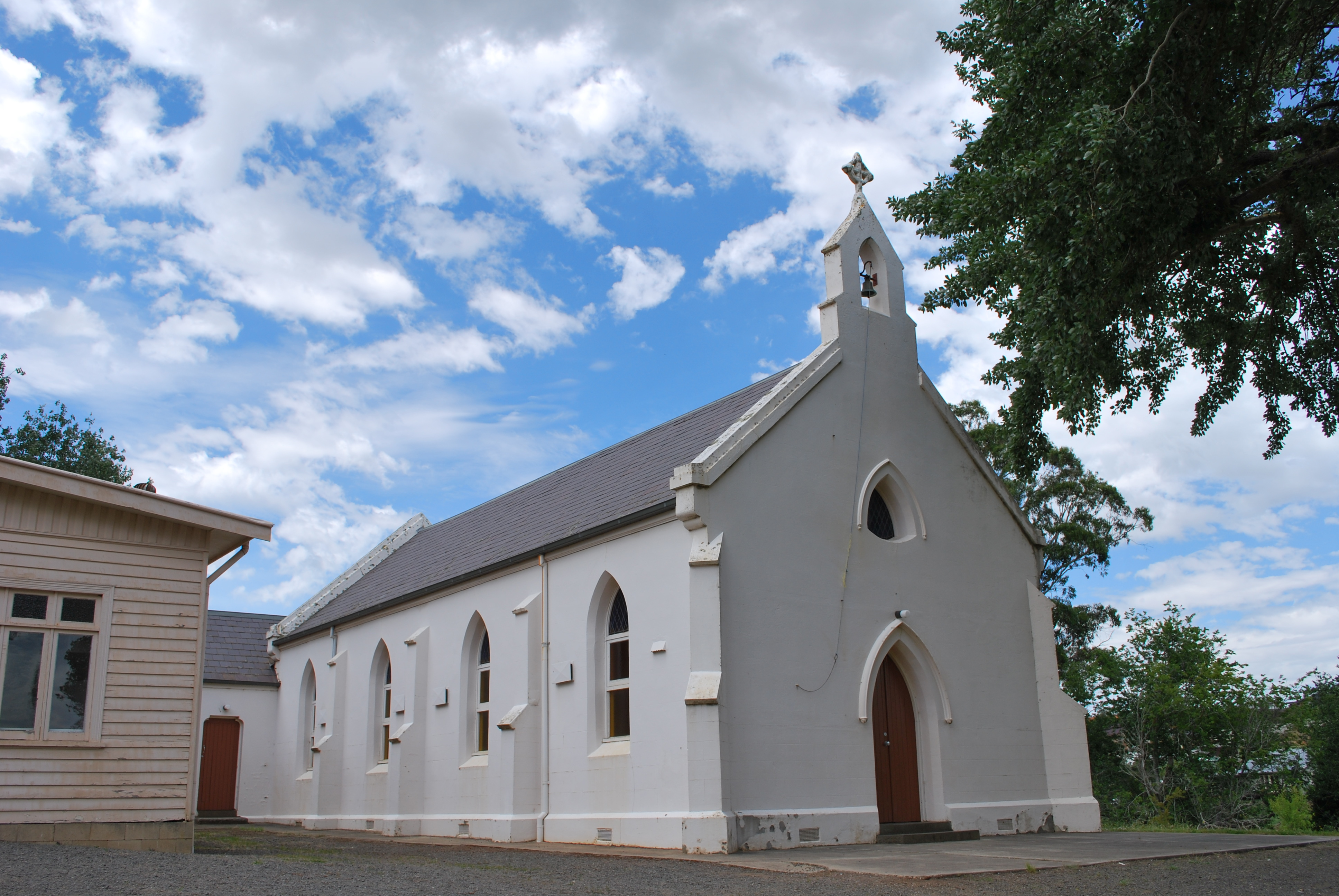 St Peter & Paul's Roman Catholic church at Buninyong, Victoria